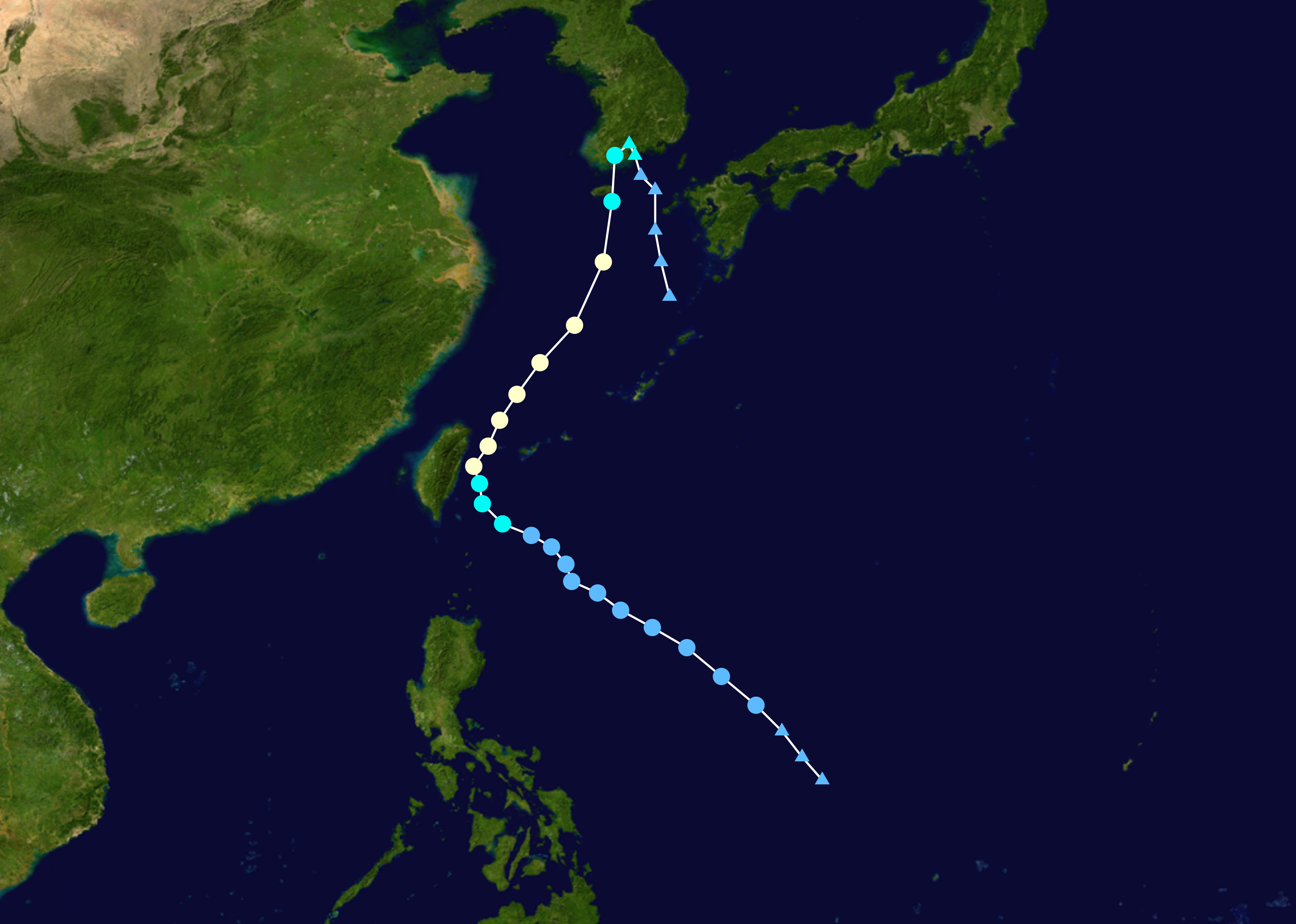 Track map of Typhoon Yanni of the 1998 Pacific typhoon season. The points show the location of the storm at 6-hour intervals. The colour represents the storm's maximum sustained wind speeds as classified in the Saffir–Simpson scale (see below), and the shape of the data points represent the nature of the storm, according to the legend below. Saffir–Simpson scale Tropical depression≤38 mph≤62 km/h Category 3111–129 mph178–208 km/h Tropical storm39–73 mph63–118 km/h Category 4130–156 mph209–251 km/h Category 174–95 mph119–153 km/h Category 5≥157 mph≥252 km/h Category 296–110 mph154–177 km/h Unknown Storm type Tropical cyclone Subtropical cyclone Extratropical cyclone / Remnant low / Tropical disturbance / Monsoon depression